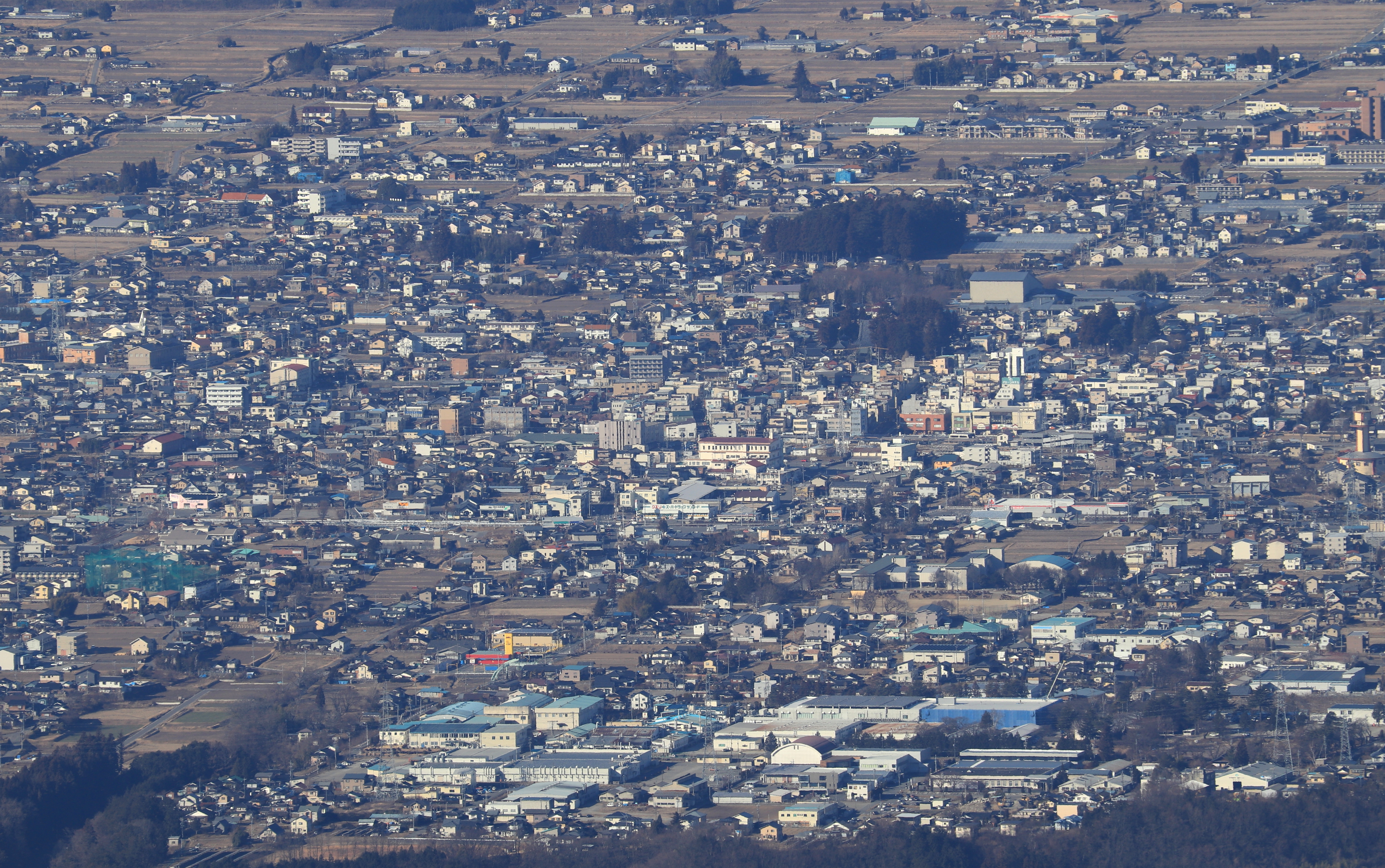 Komagane Station (wide view) seen from Mount Tokura in Komagane, Nagano Prefecture, Japan. Canon EOS Kiss X9